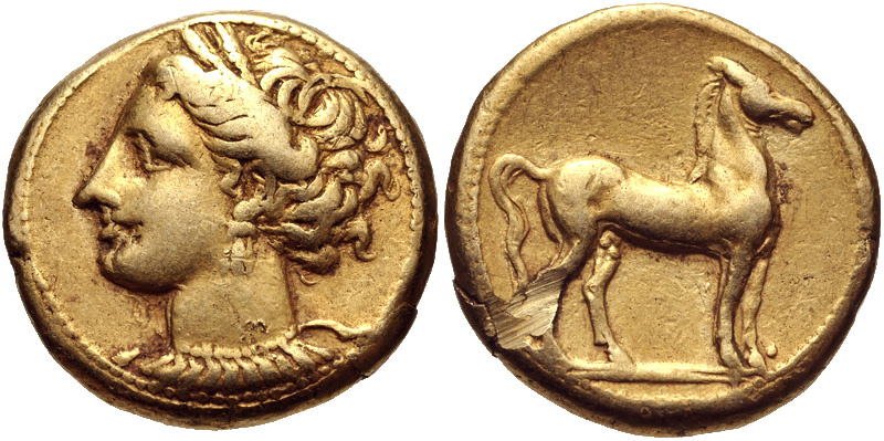 Zeugitana, Carthage. Circa 310-290 BC. EL Stater (17mm, 7.41 g, 12h). Wreathed head of Tanit left Horse standing right on double ground line; pellet to right. Jenkins & Lewis group V; MAA 12; SNG Copenhagen -. VF, scuff around 7 o’clock on reverse.